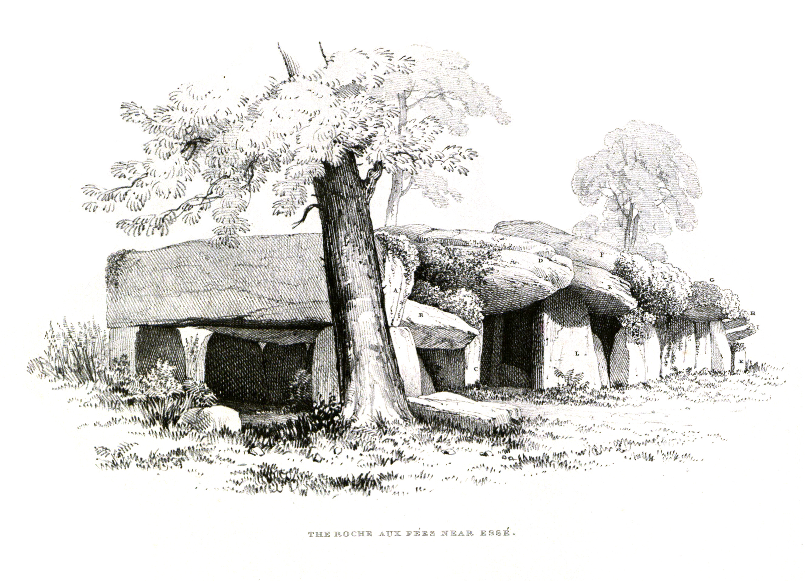 Sketch of the Roche-aux-Fées in Essé, Ille-et-Vilaine, Bretagne. bottom center: THE ROCHE AUX FÉES NEAR ESSÉ.